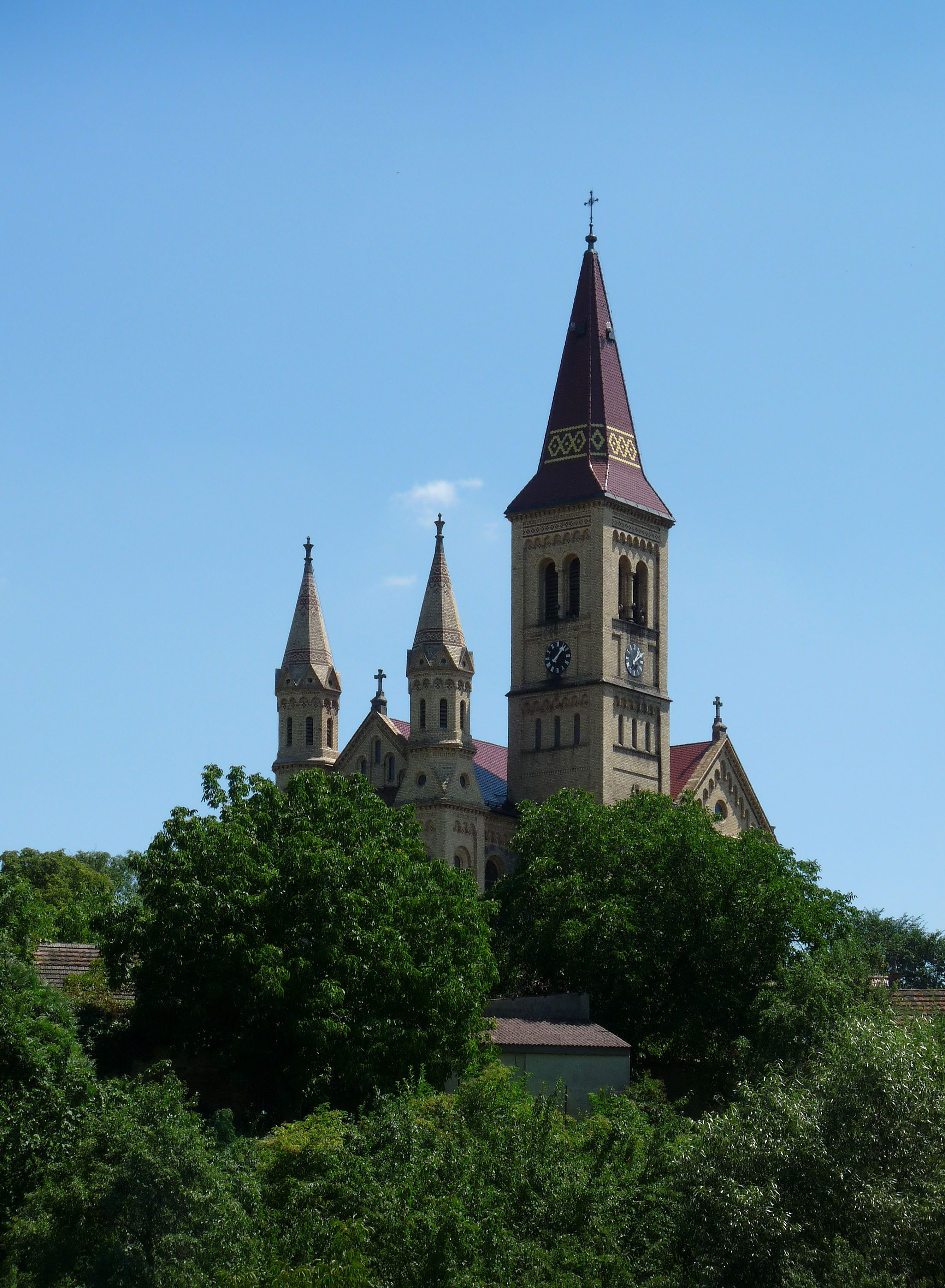 Saints Peter and Paul church from 1899-1900 in the village of Hosín, České Budějovice District, Czech Republic. Česky: Kostel svatého Petra a Pavla z let 1899 až 1900 v obci Hosín v okrese České Budějovice.